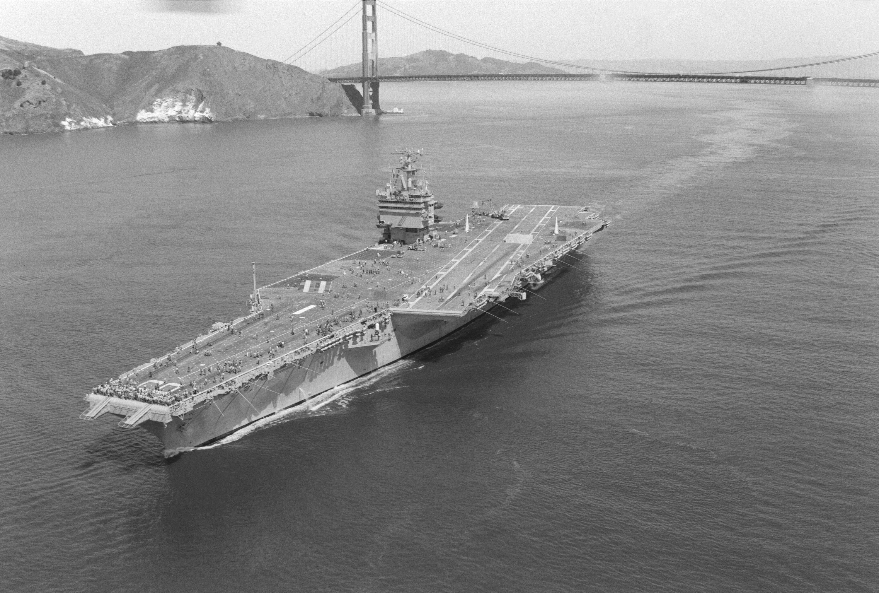 The U.S. aircraft carrier USS Enterprise (CVN-65) leaving San Francisco Bay for a Western Pacific deployment on 1 September 1982. The Golden Gate Bridge is visible in the background.